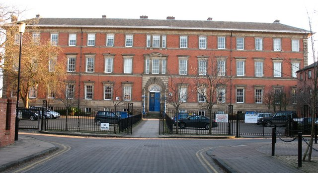 Former County Hospital, York An impressive brick building of 1850 which was used as a hospital until 1977. After closure it was empty for several years, but was converted for office use in 1985. One of York's best Victorian buildings and well worth saving.